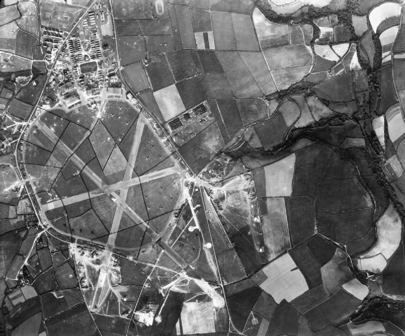 Aerial view of the RAF Coastal Command airfield RAF St Eval in Cornwall, UK.